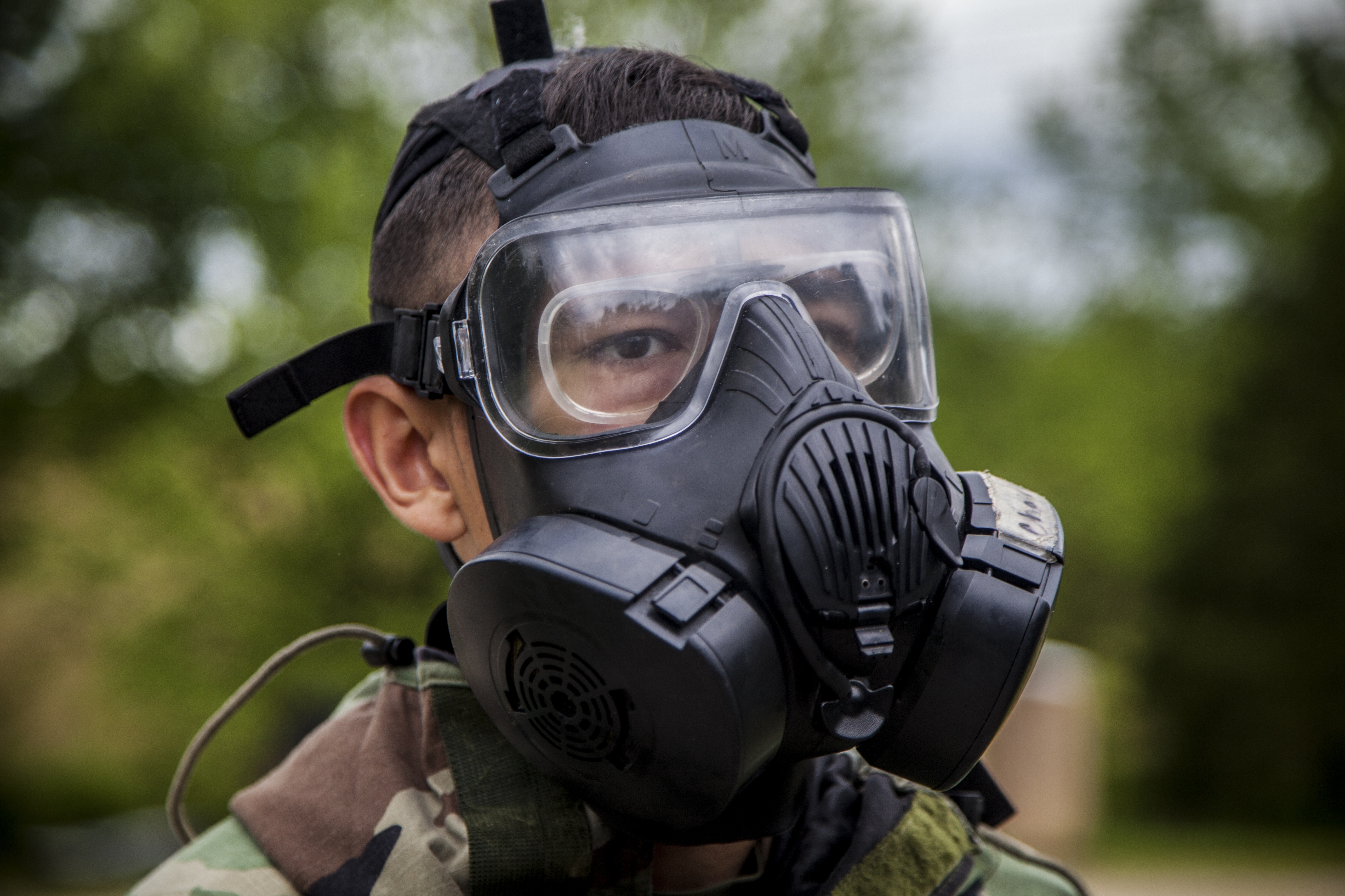 A U.S. Marine assigned to Chemical Biological Radiological and Nuclear (CBRN) Defense School, wears his M50 joint service general-purpose mask during a field training exercise at Fort Leonard Wood, Mo., May 11, 2016. CBRN training teaches Marines how to utilize their issued gear enabling them to survive in a chemical environment. (U.S. Marine Corps photo by Lance Cpl. Manuel A. Serrano/Released) Unit: Marine Corps Combat Service Support Schools